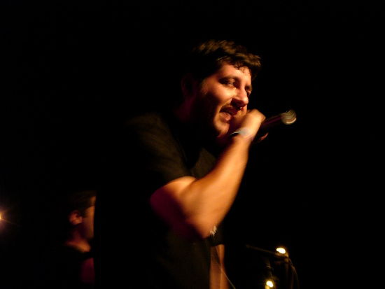 Valencian singer Josep Nadal performing live with latin rock band La Gossa Sorda in L'Alcúdia